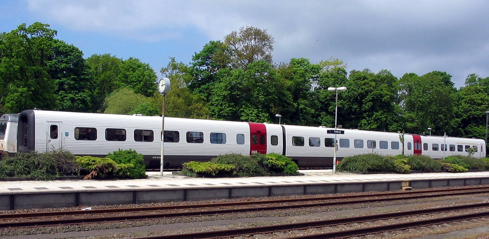 DSB Intercity train, Aalborg, Denmark